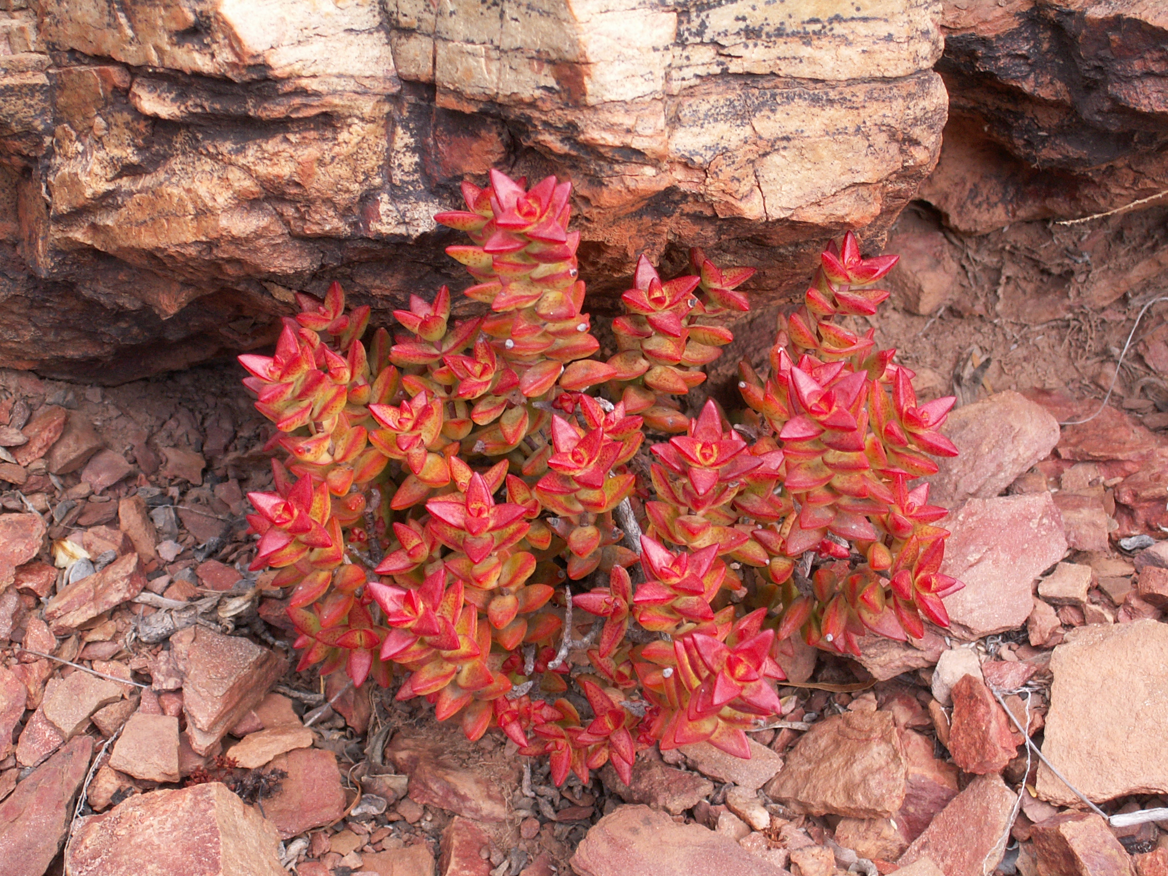 Kebab Bush, Concertina Bush, Crassula rupestris Thunb. (Crassulaceae), Little Karoo, Ladismith, Kannaland, Western Cape, South Africa